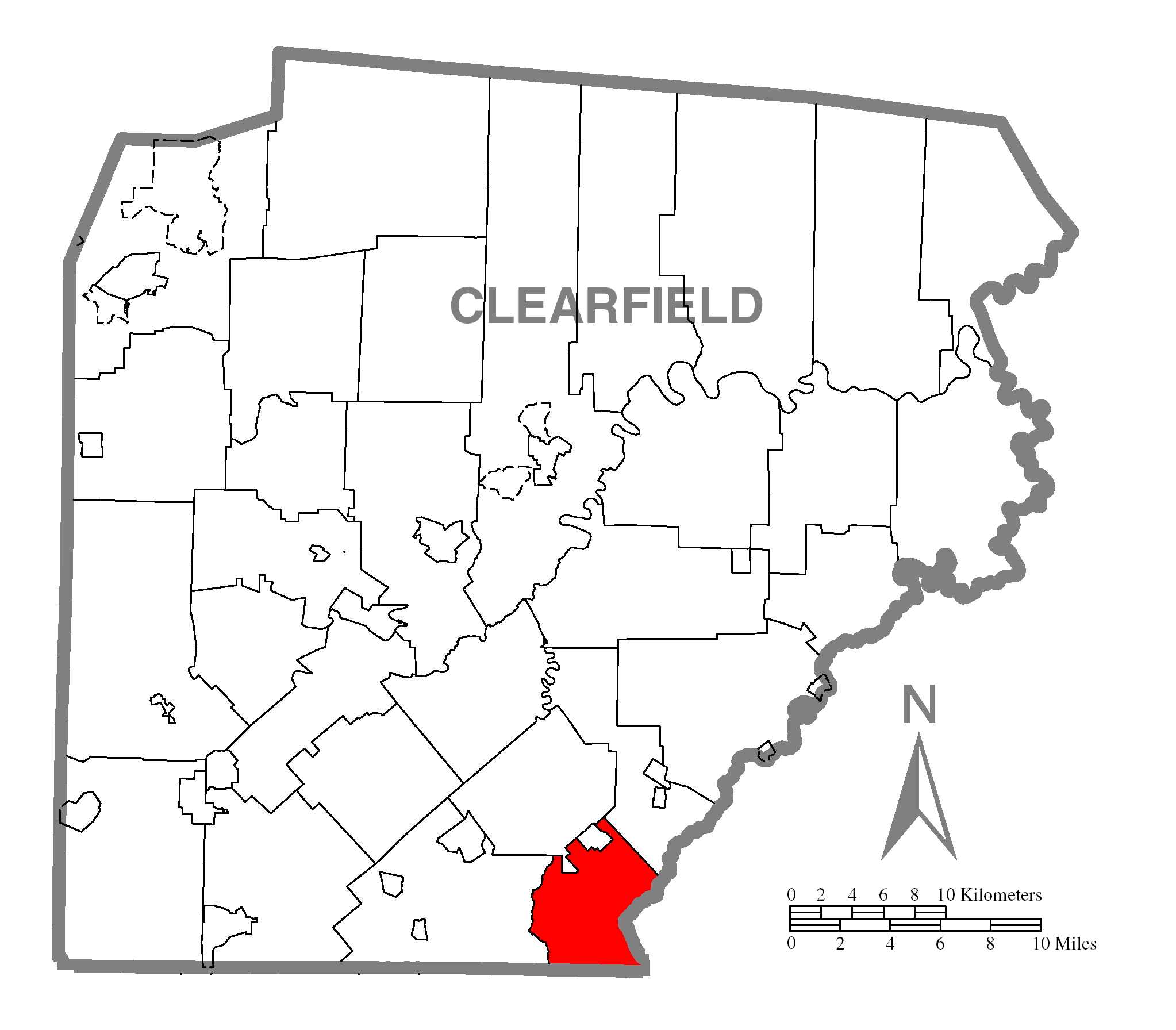 A map of Clearfield County showing Gulich Township, Pennsylvania (alternate) highlighted on the map.